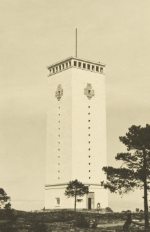 Rauma old water tower in Finland